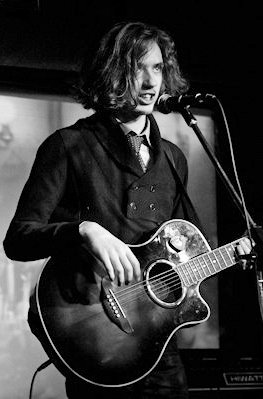 Eugene Chebotarenko, bass-guitarist of Flëur